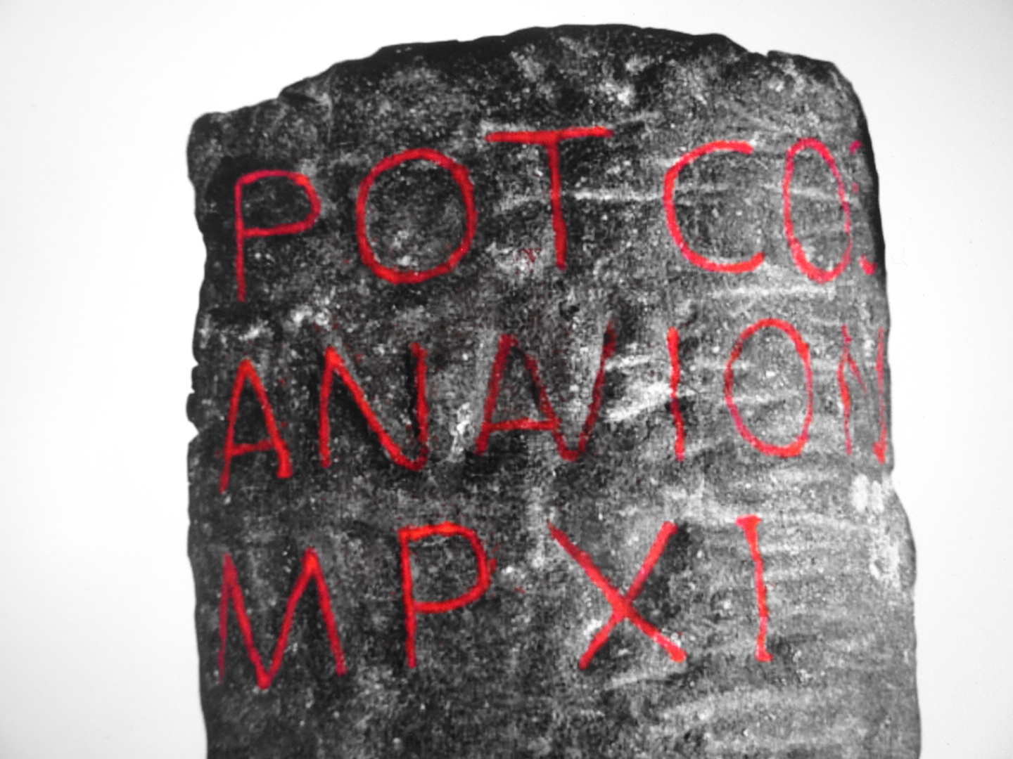 Roman milestone found at Silverlands, Buxton